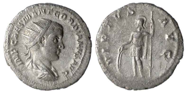 Silver Antoninianus of Gordian III. Ruler/Emperor: Gordian IIIl City/Region: Rome; Denomination: AR Antoninianus; Composition: Silver; Date: 238-239 AD; Obverse: IMP CAES M ANT GORDIANVS AVG, radiate, draped and cuirassed bust right ;Reverse: VIRTVS AVG, Virtus standing facing in military dress, head left, with shield and spear; Reference: RIC 6, RSC 381